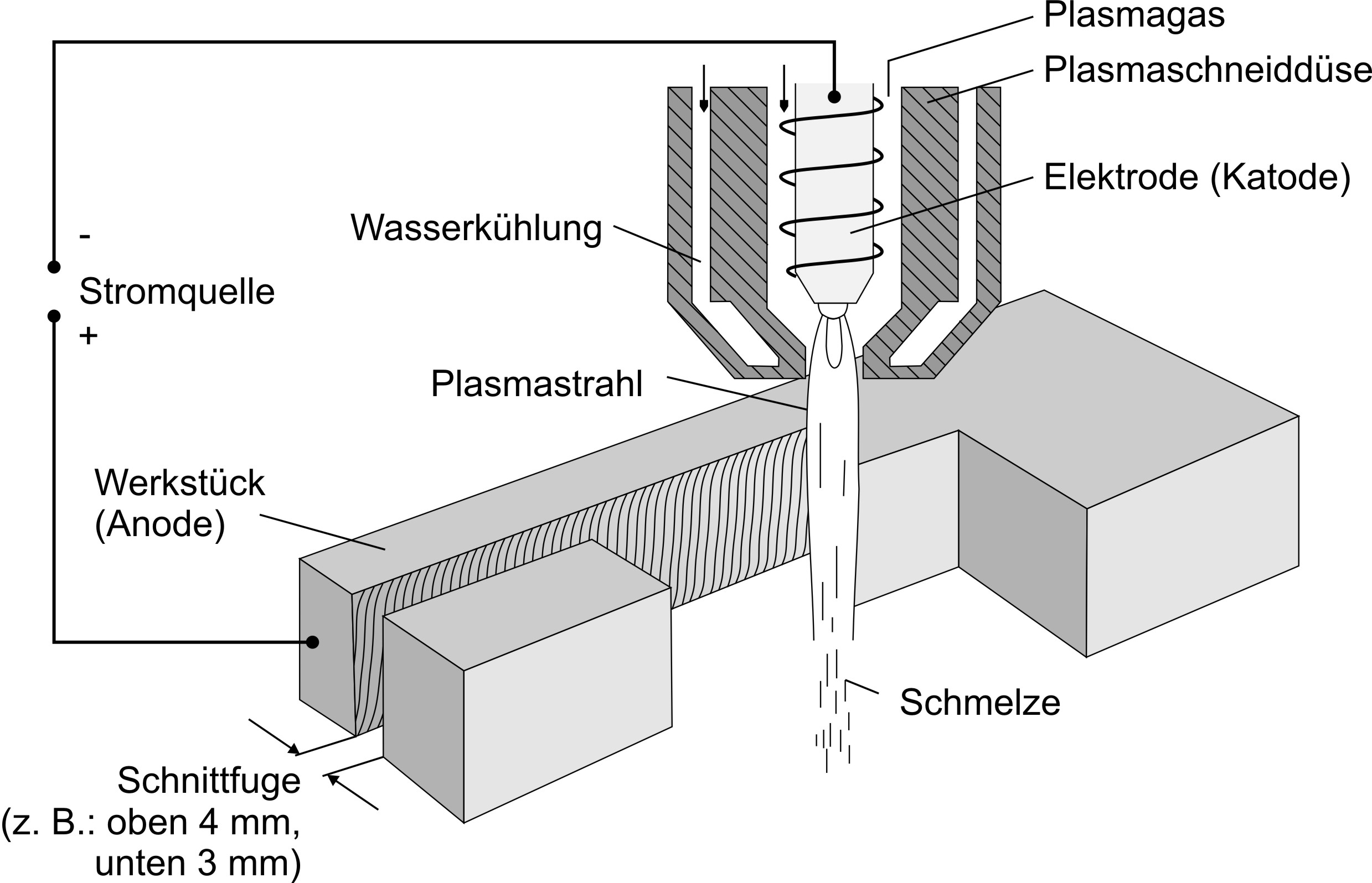 Process principle plasma cutting